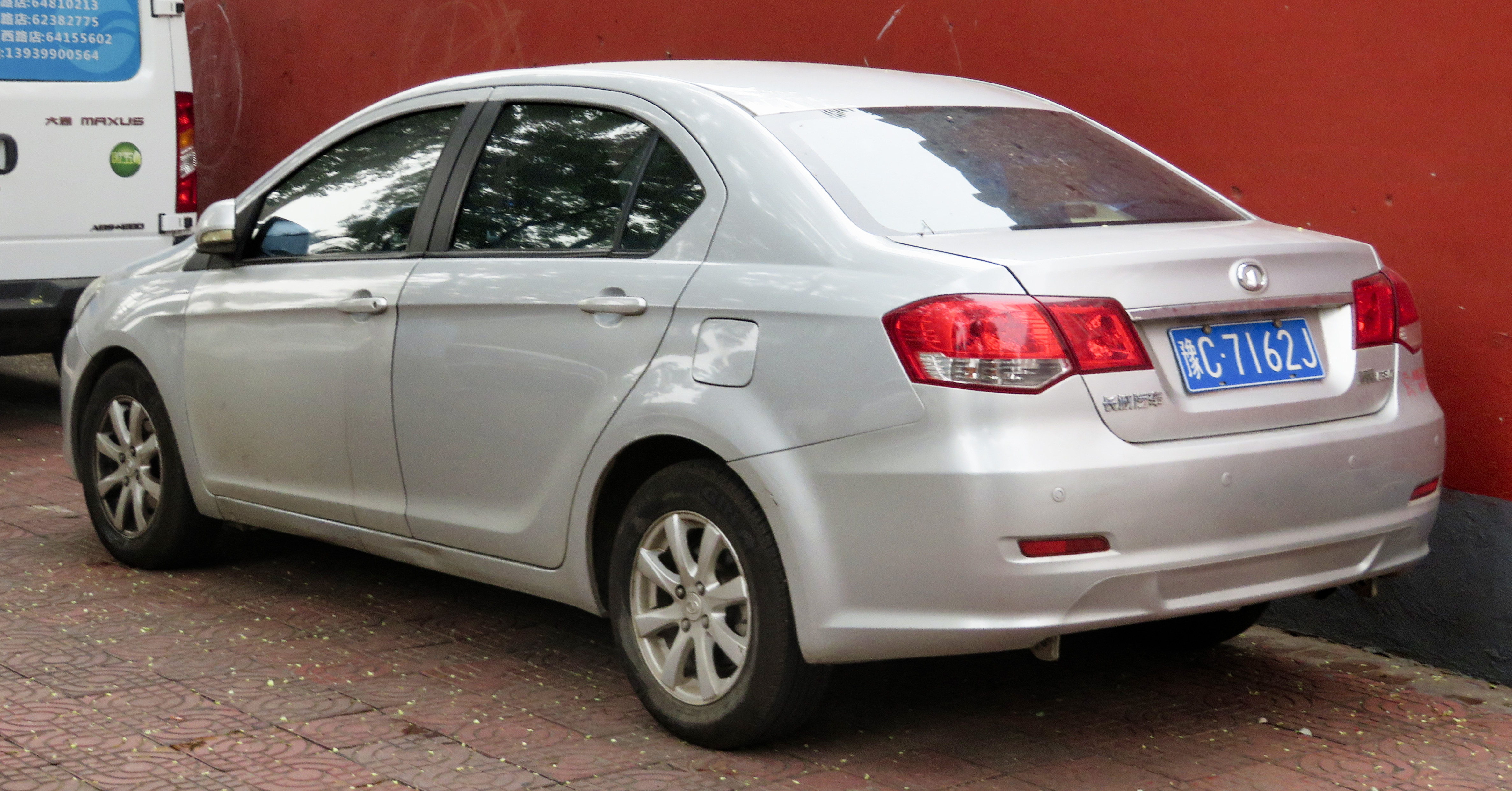 A 2012 Great Wall Voleex C30 photographed in Luolong District, Luoyang, Henan province, China